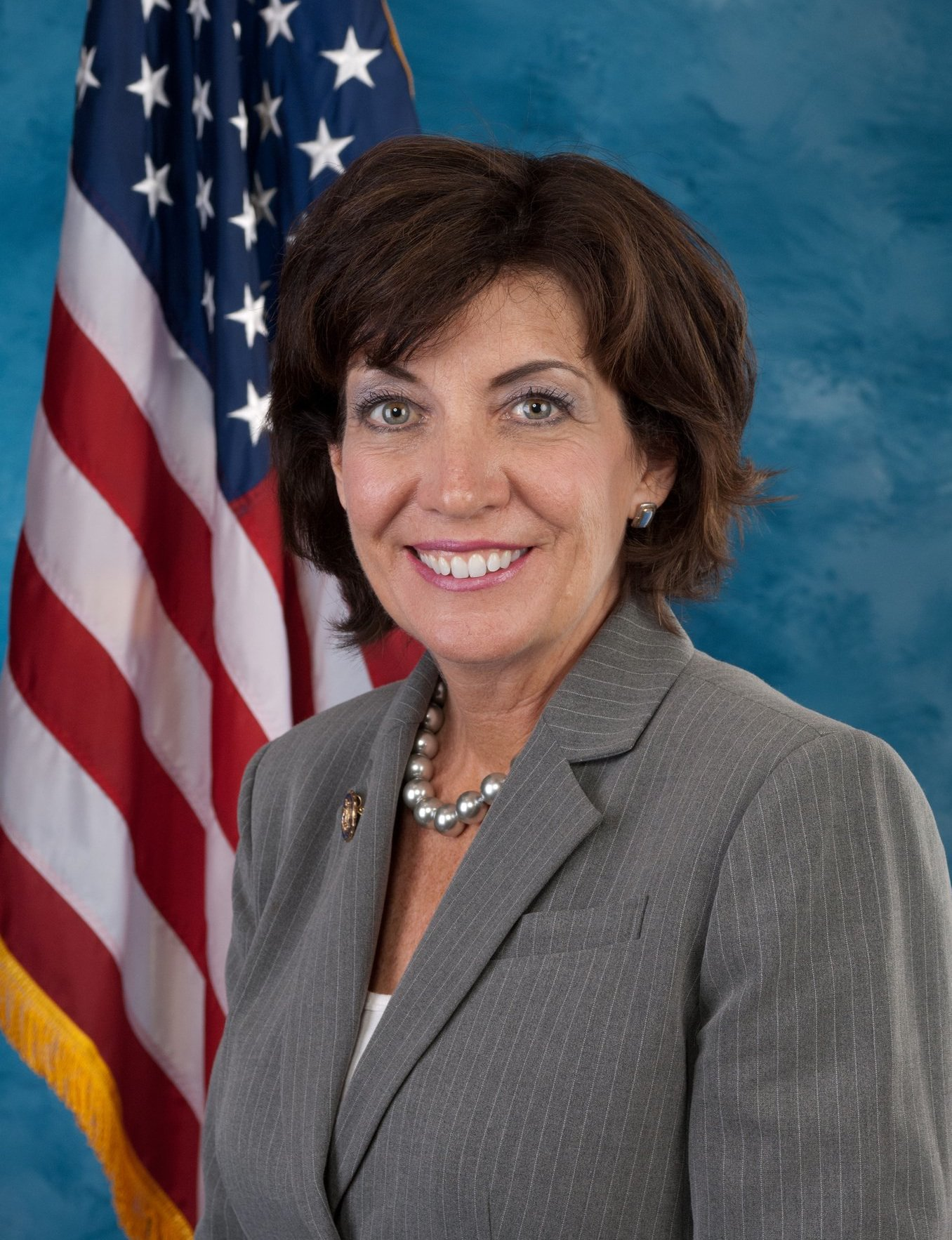 This is Kathy Hochul's official congressional photo